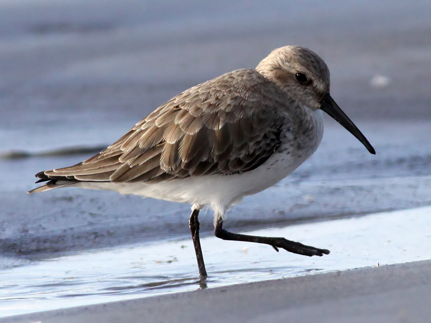 Dunlin (Calidris alpina) Photo taken on the Rheindamm, Vorarlberg, Austria